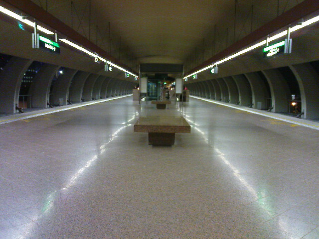 Tampines MRT Station at night